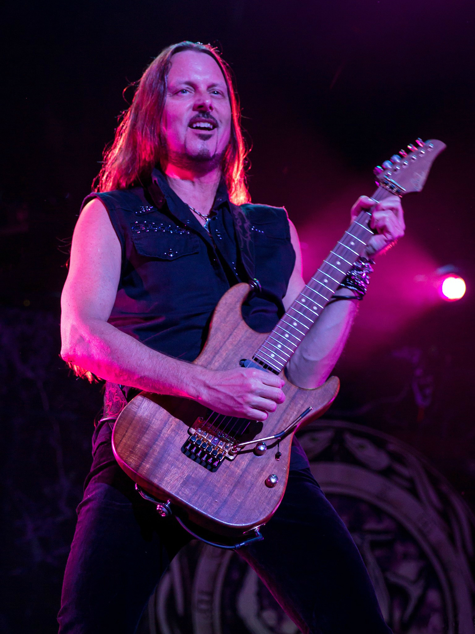 Whitesnake performing in San Antonio, Texas, 2015-06-23